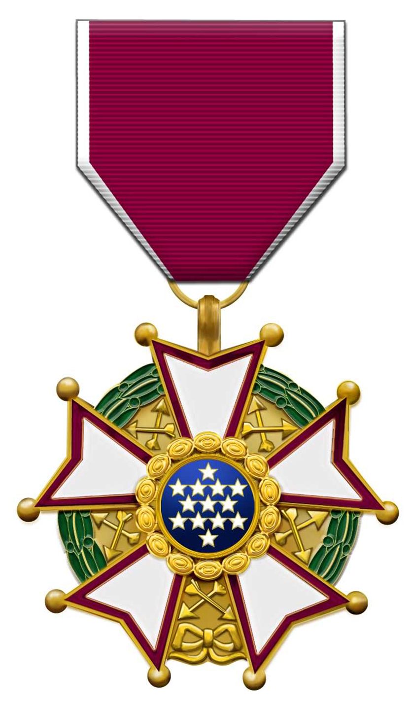 Legion of Merit, Legionnaire order